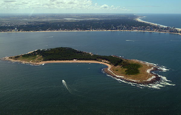 Aerial photo of Gorriti Island in Punta del Este